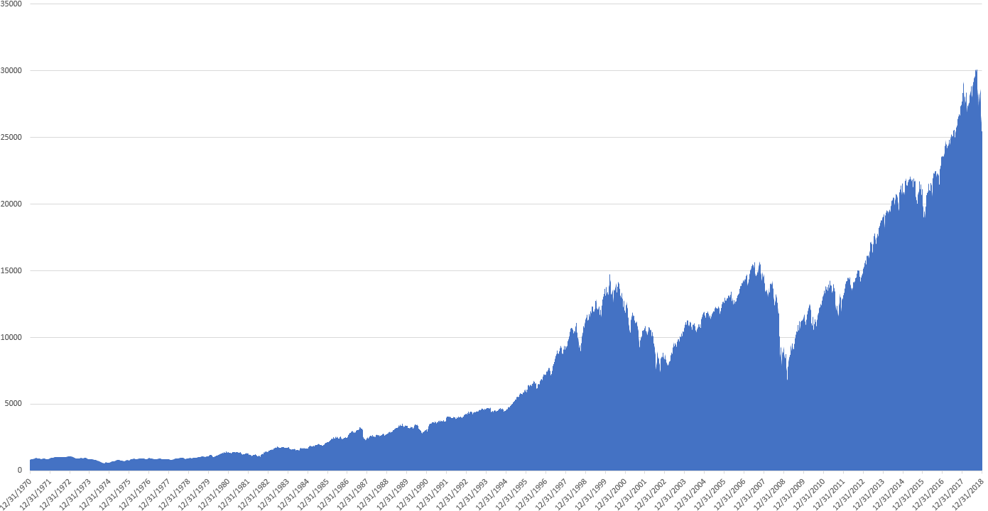 Wilshire 5000 price index from 31 Dec 1970 - 03 Jan 2019. Citation for source of data used to create this chart in Microsoft Excel 2016: Wilshire Associates, Wilshire 5000 Price Index [WILL5000PR], retrieved from FRED, Federal Reserve Bank of St. Louis